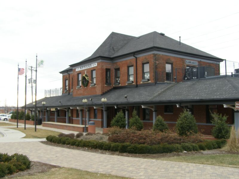 Amtrak Station in Kankakee, Illinois.